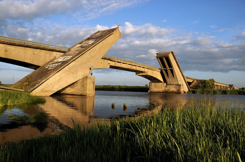 Berlin or Palmburg bridge in Kaliningrad